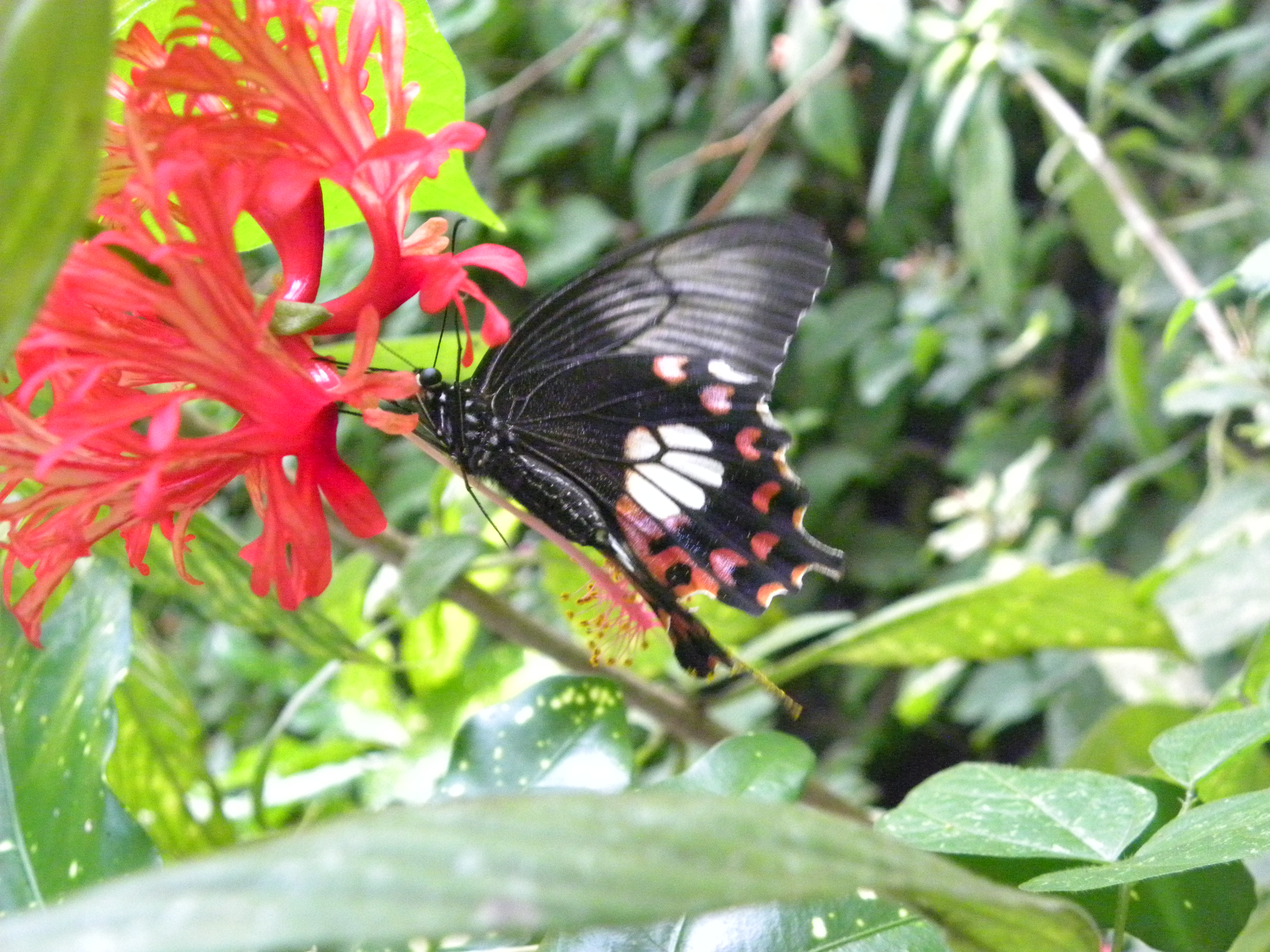 Common Mormon female, bio-mimicking Crimson Rose.